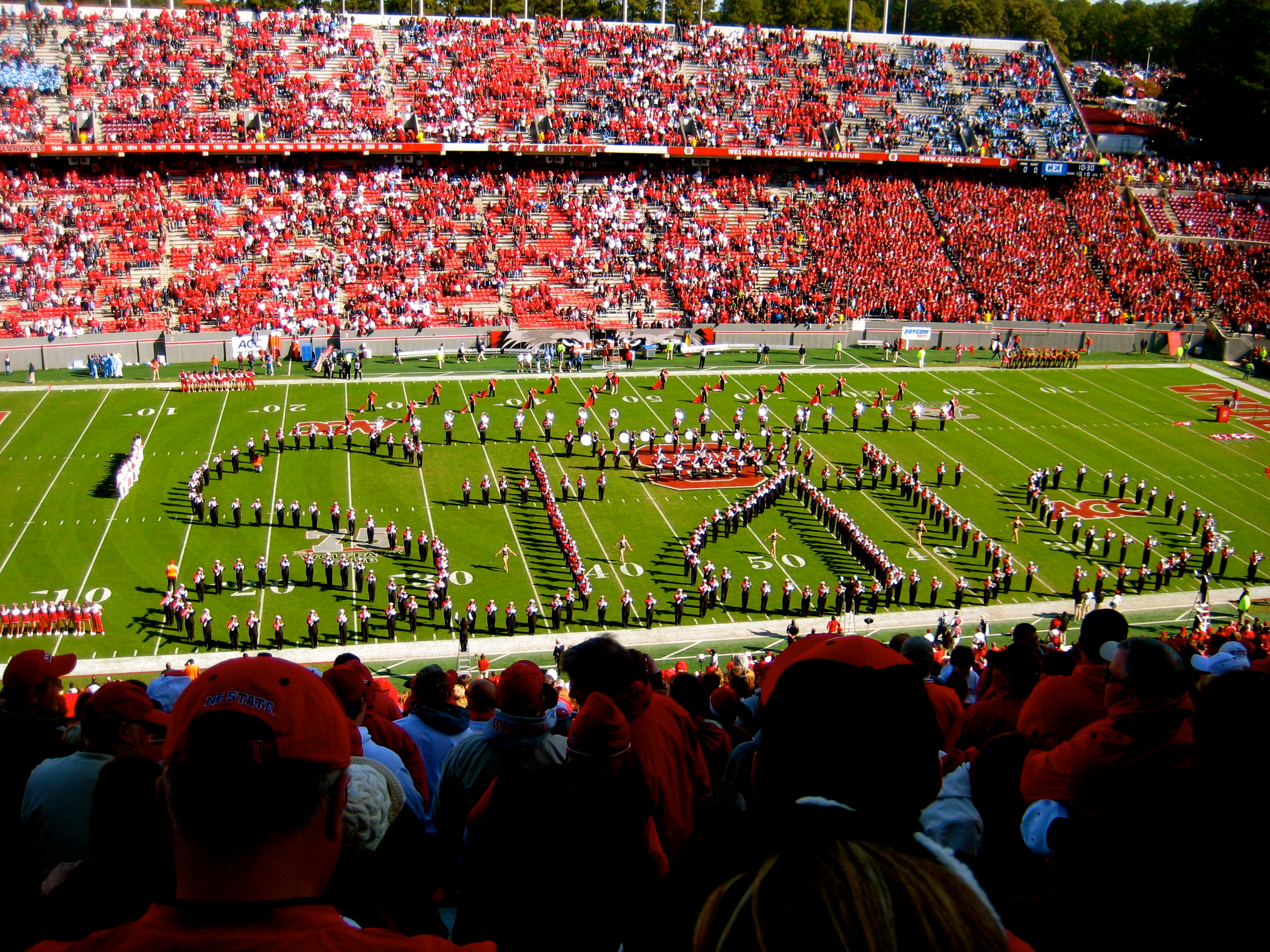 NC State Game